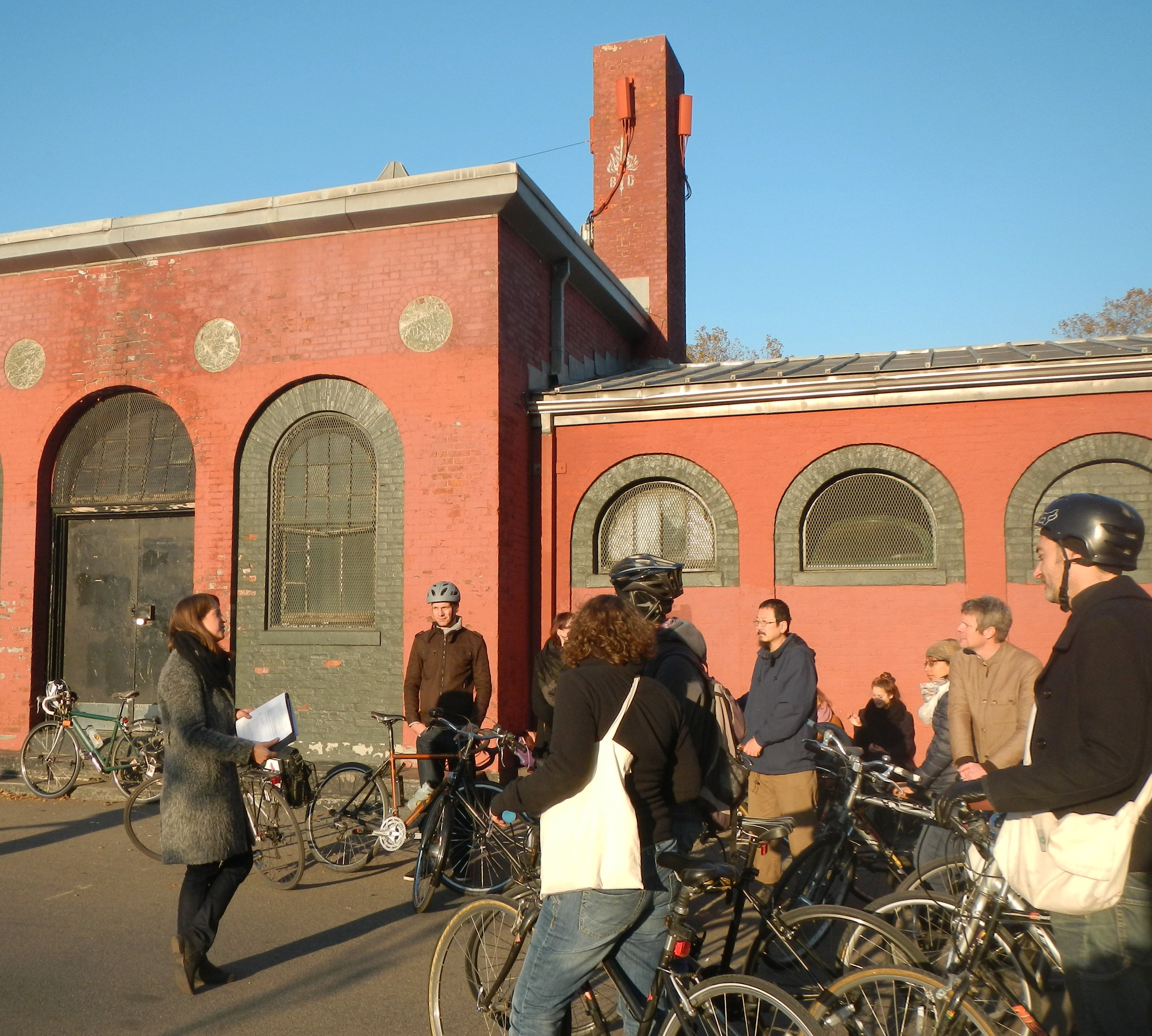 Looking north at Prof Johae telling a touring group about the legal machinations that created McCarren Park, on a sunny afternoon.